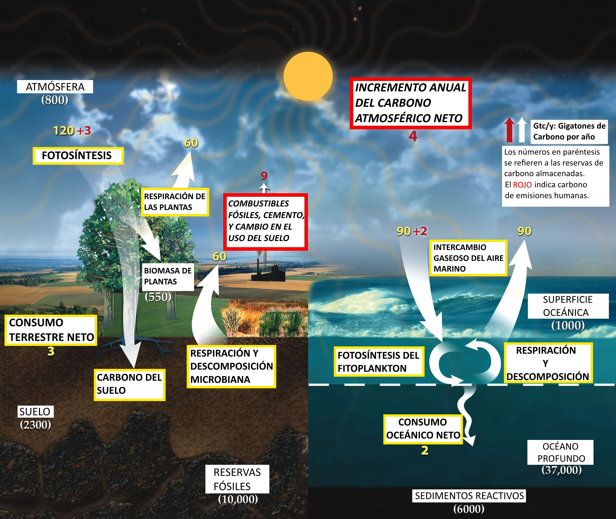 Carbon cycle in Spanish